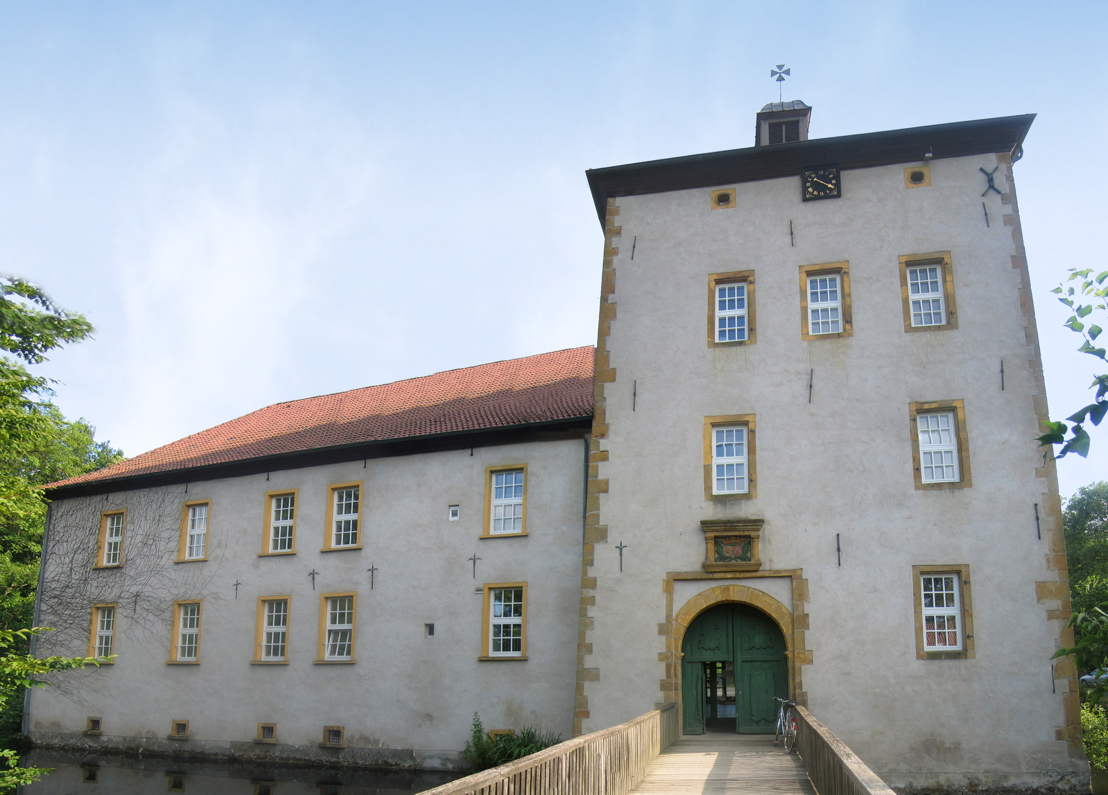 Bustedt Castle in Hiddenhausen, District of Herford, North Rhine-Westphalia, Germany.